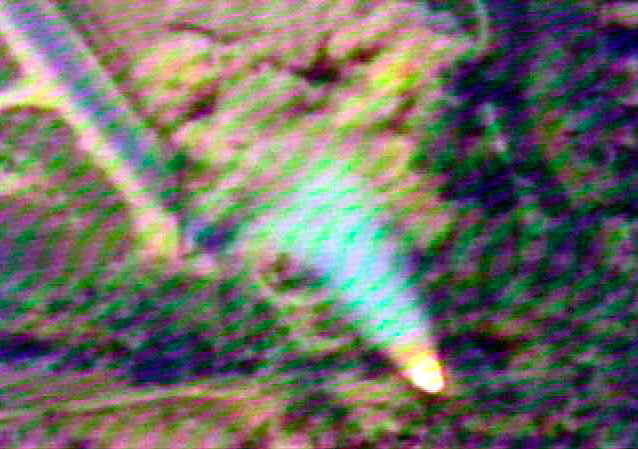 Still photograph from a videotape of an Iraqi surface-to-air missile, believed to be an S-A3, launched at a coalition aircraft in July 2001. Chairman of the Joint Chiefs of Staff Gen. Richard B. Myers, U.S. Air Force, showed the videotape during a news briefing with Secretary of Defense Donald H. Rumsfeld in the Pentagon on Sept. 30, 2002,.